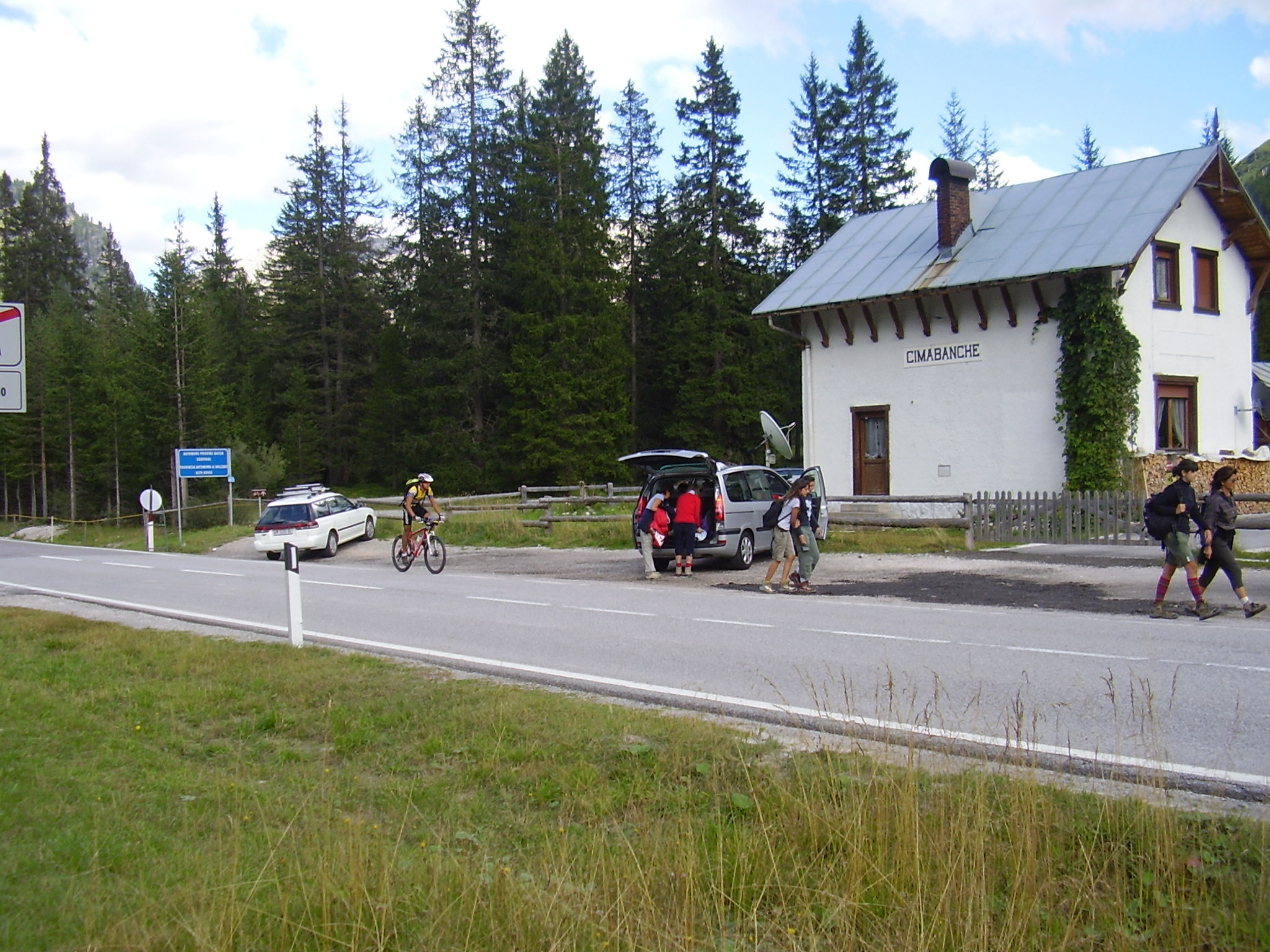 The Cimabanche Pass in the Dolomites, Italy.